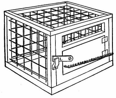 The puzzle box. The animal must here reach his paw between the bars and raise the latch. A spring then gently opens the door.